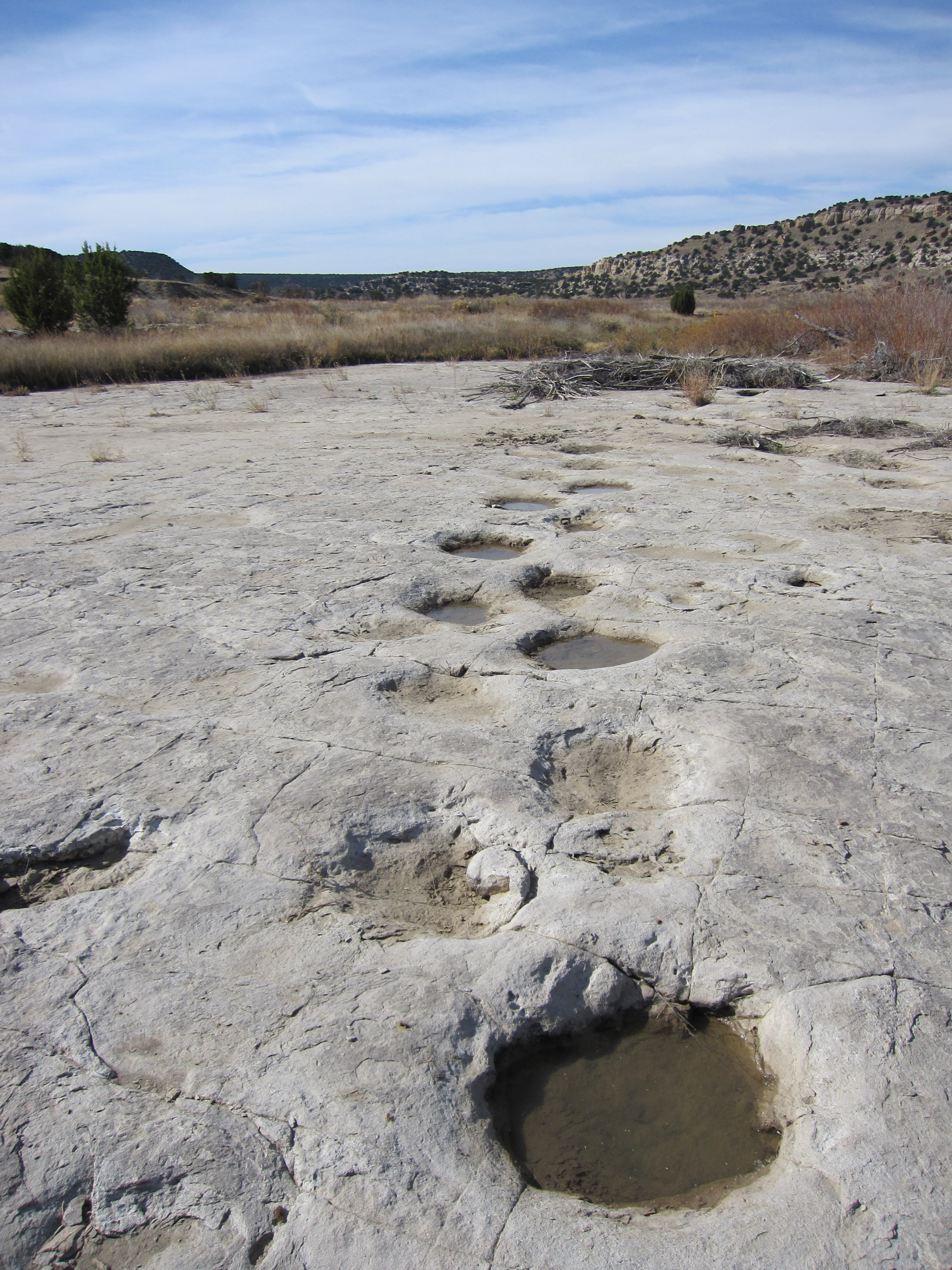 Fossilized brontosaurus tracks at Picketwire Canyon, Comanche National Grassland, Colorado.